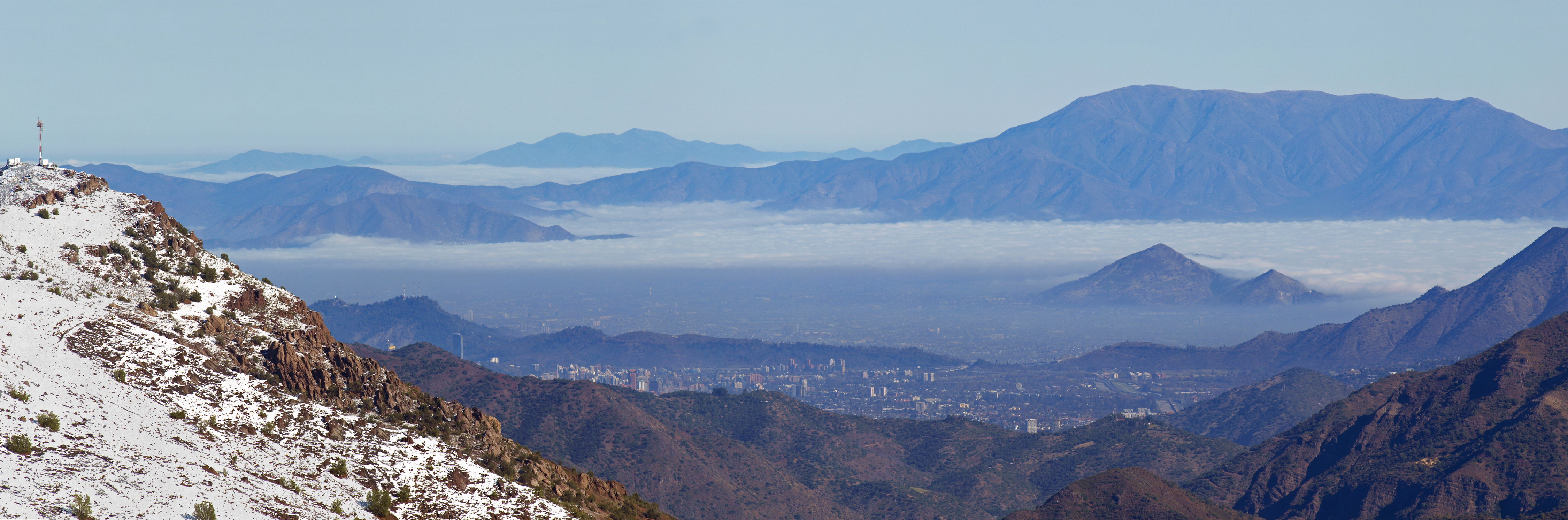 Panoramic View of Santiago surrounded by the Andes and the Chilean Coast Range.